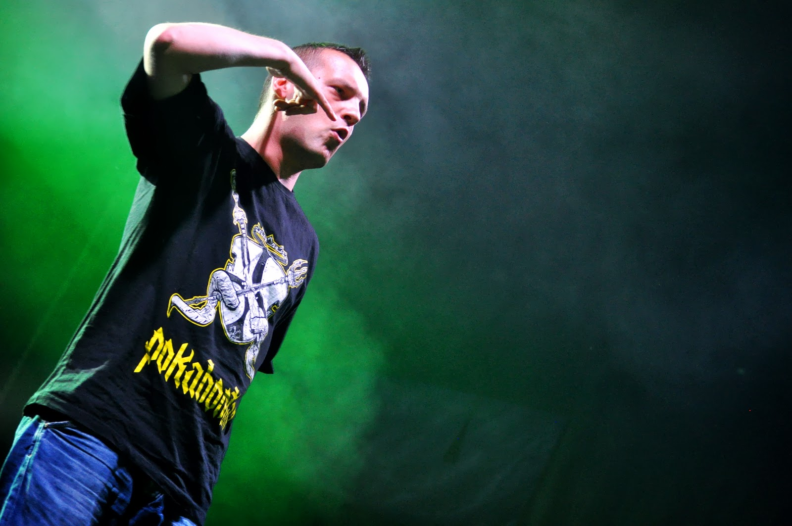 Polish rapper Fokus